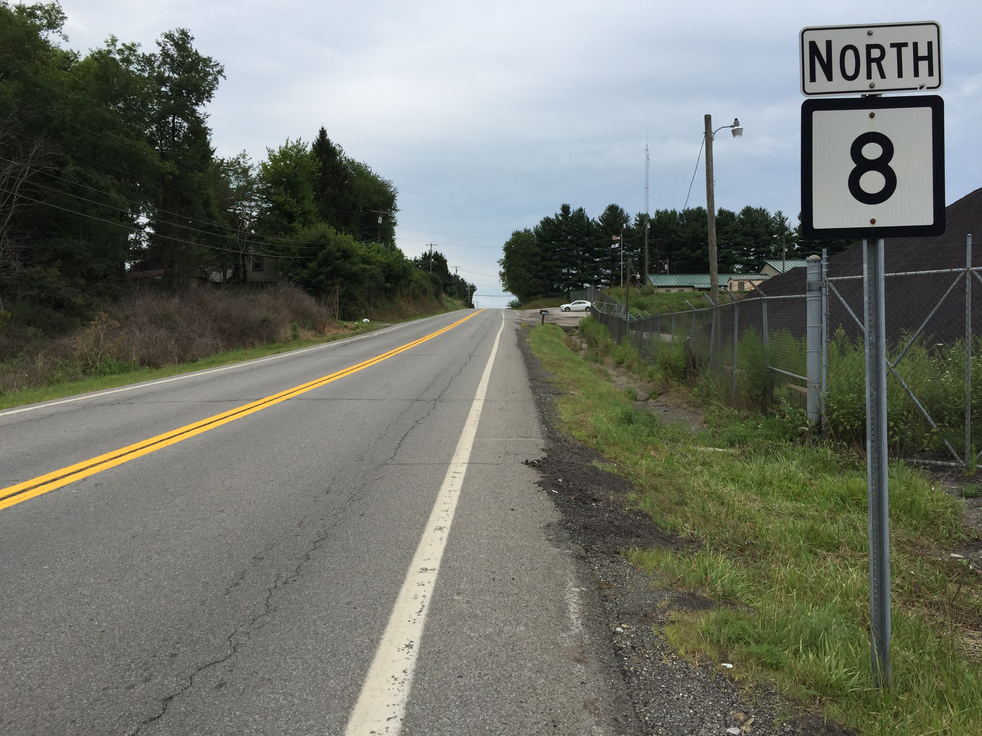 View north along West Virginia State Route 8 (Veterans Boulevard) at Washington School Road (Hancock County Route 3) in New Manchester, Hancock County, West Virginia